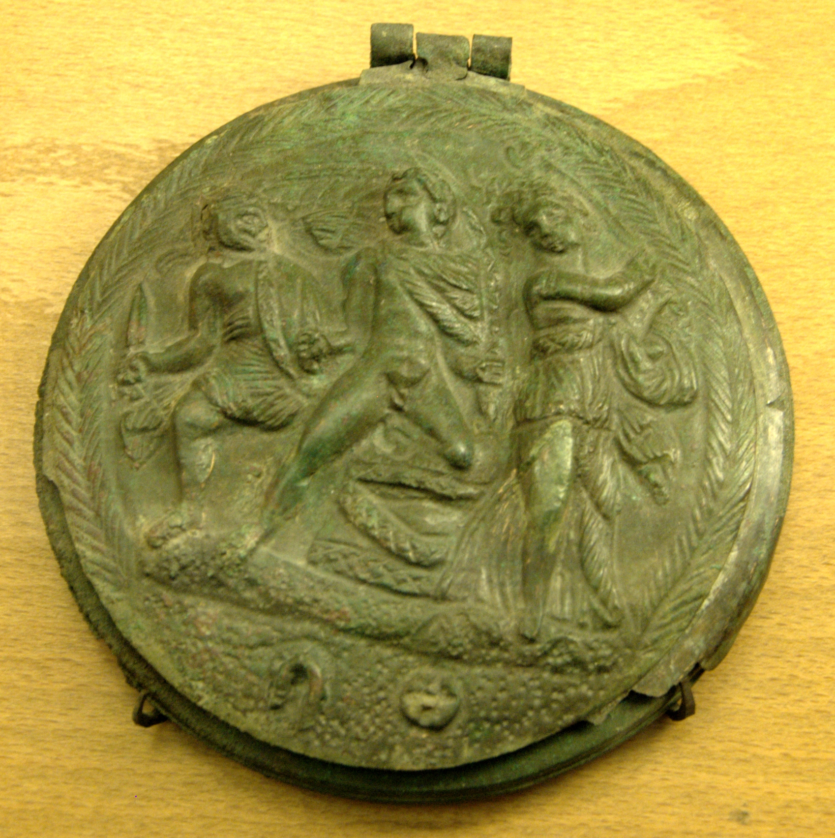 Paris seeking refuge on the altar is recognized by Hector and Cassandra who threatened it. Etruscan box mirror, bronze, 3rd century BC.